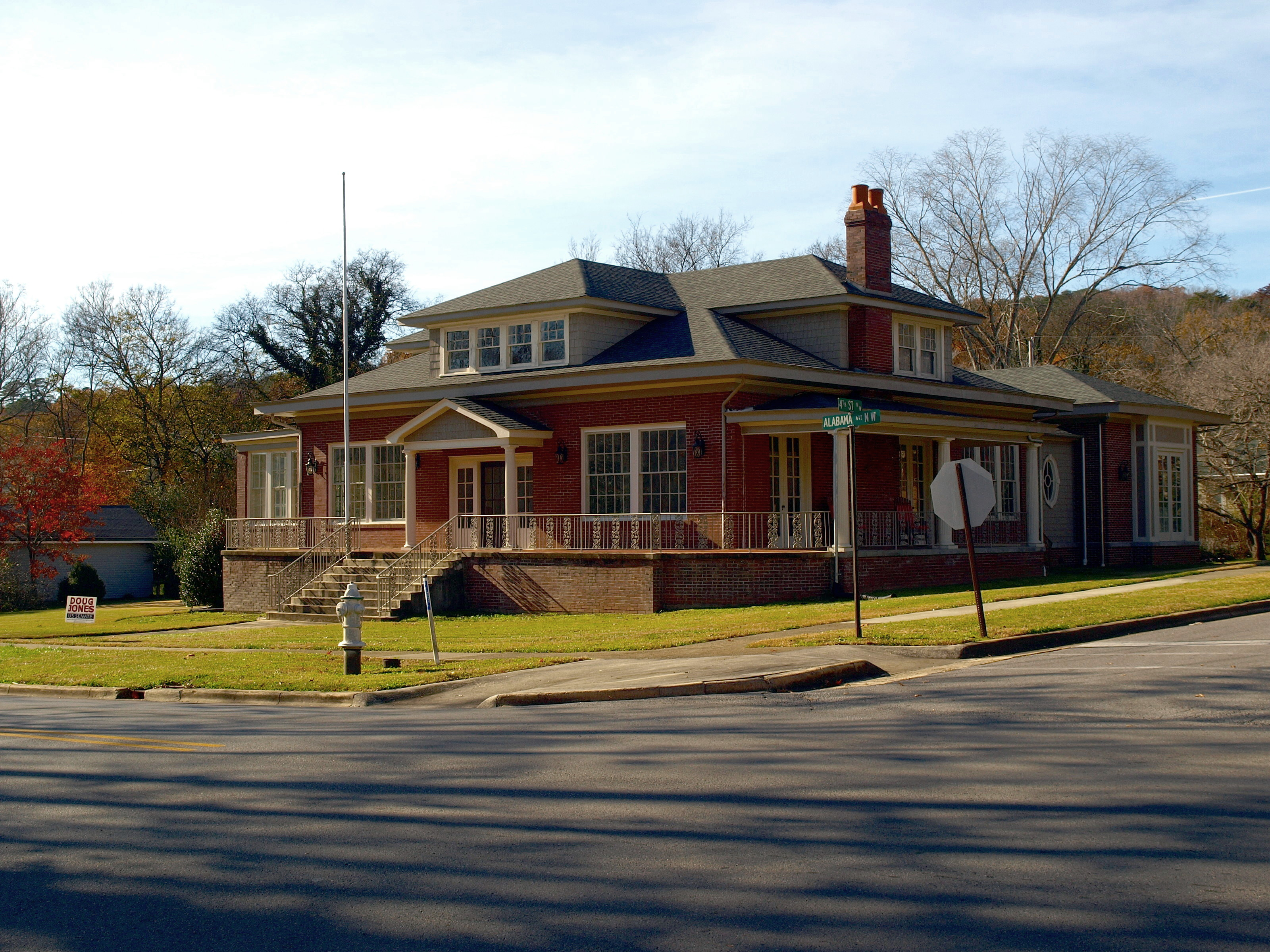 308 Alabama Avenue NW in Fort Payne, Alabama, part of the Fort Payne Residential Historic District